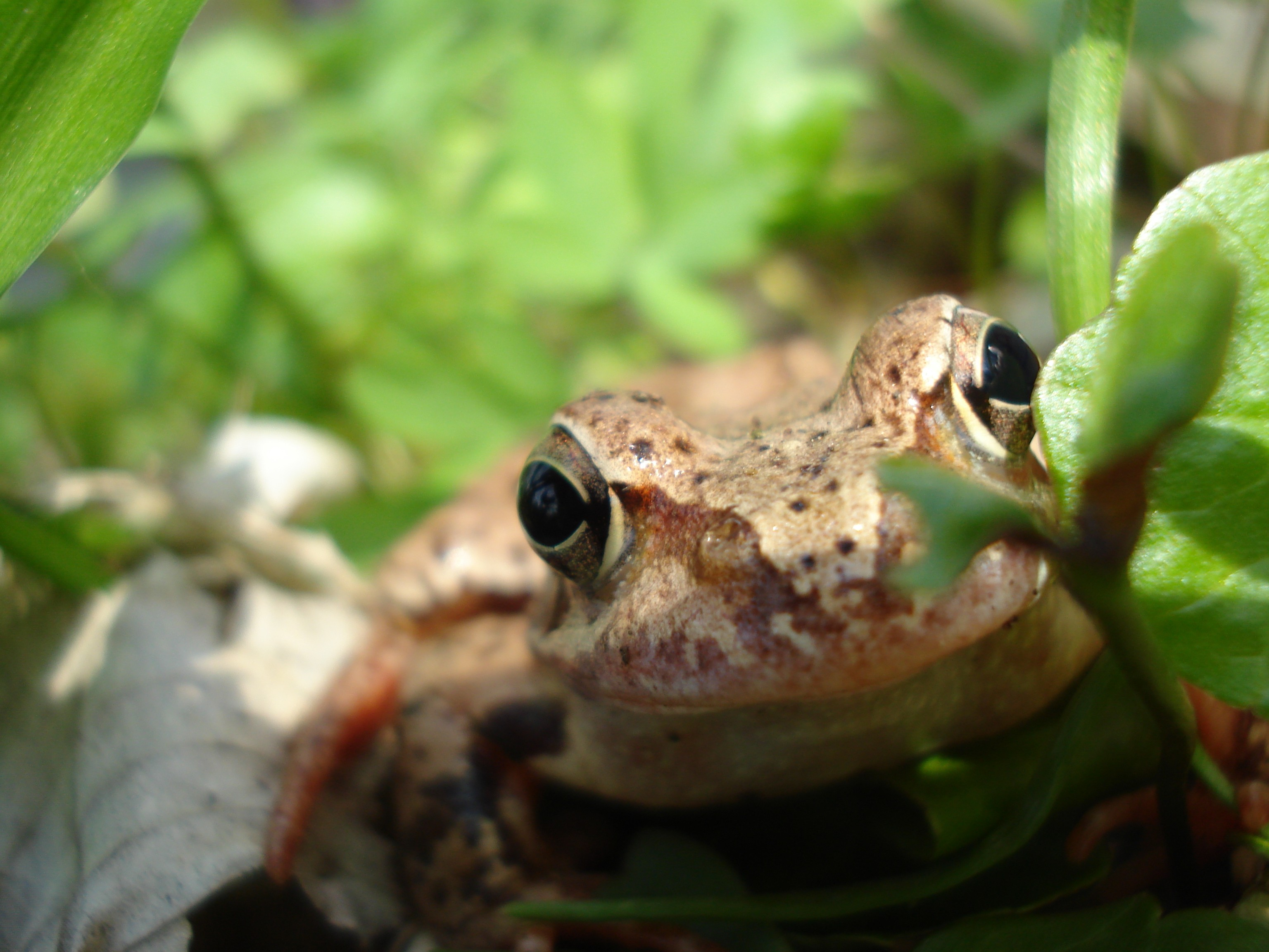 Rana dalmatina in the beech forest near Kamyanytsya, Ukraine